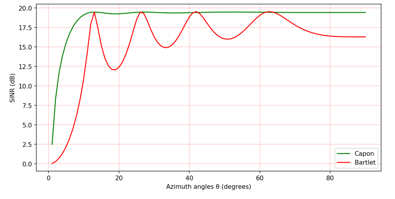 An example of Adaptive Beamforming (source code).